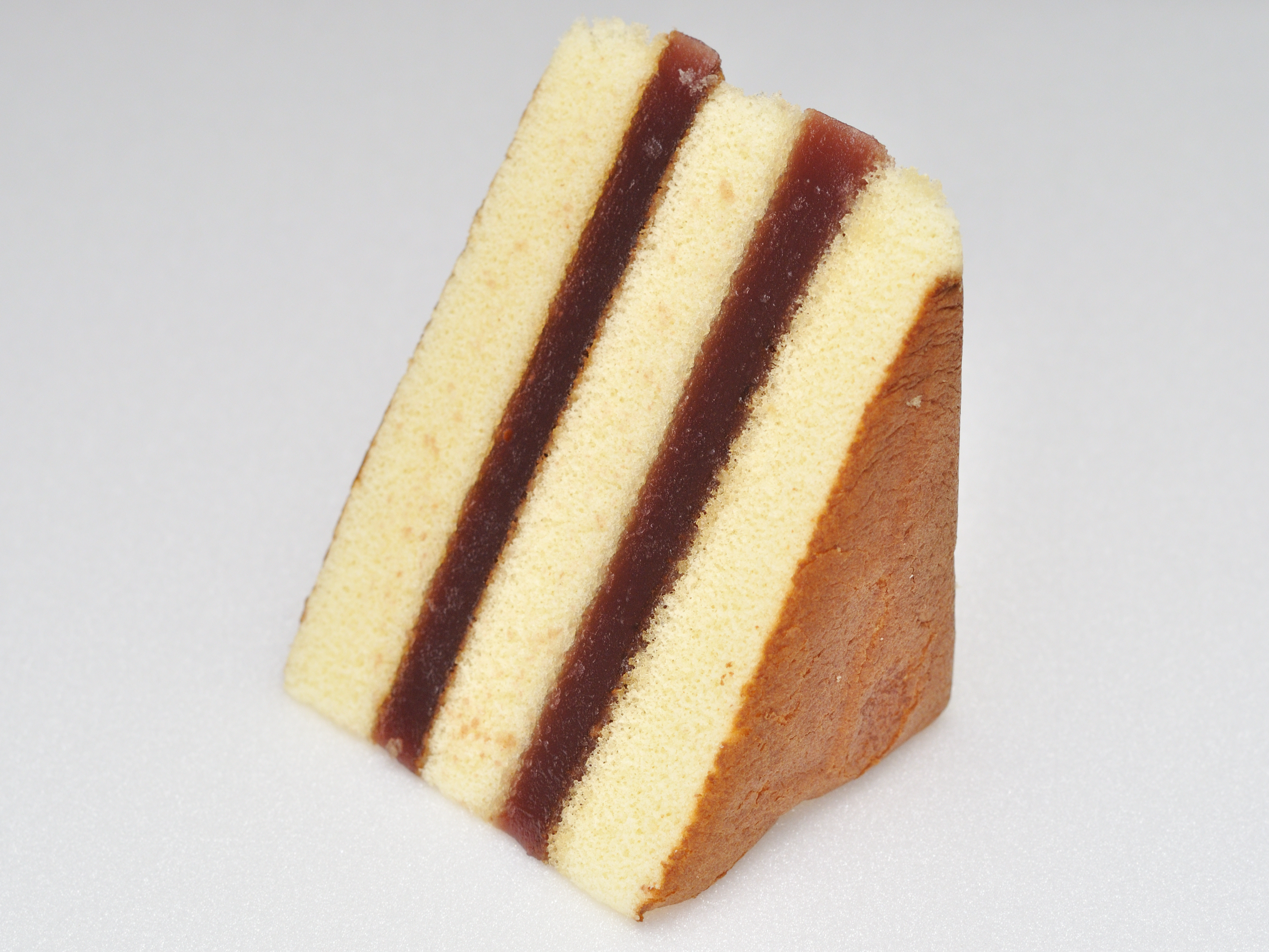 Siberia, Japanese sponge cake and yōkan sandwich.